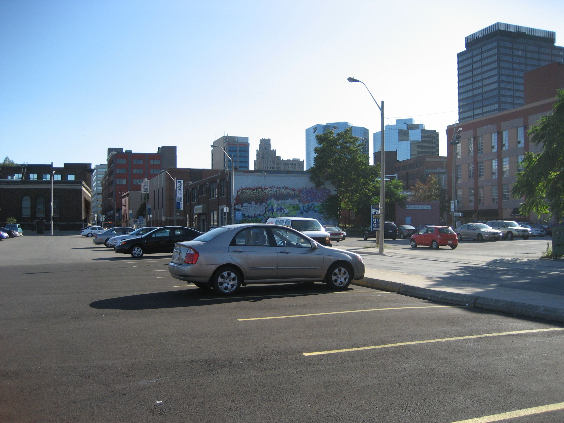 One off the many parking lots that dot Wilson Street, Hamilton, Canada.